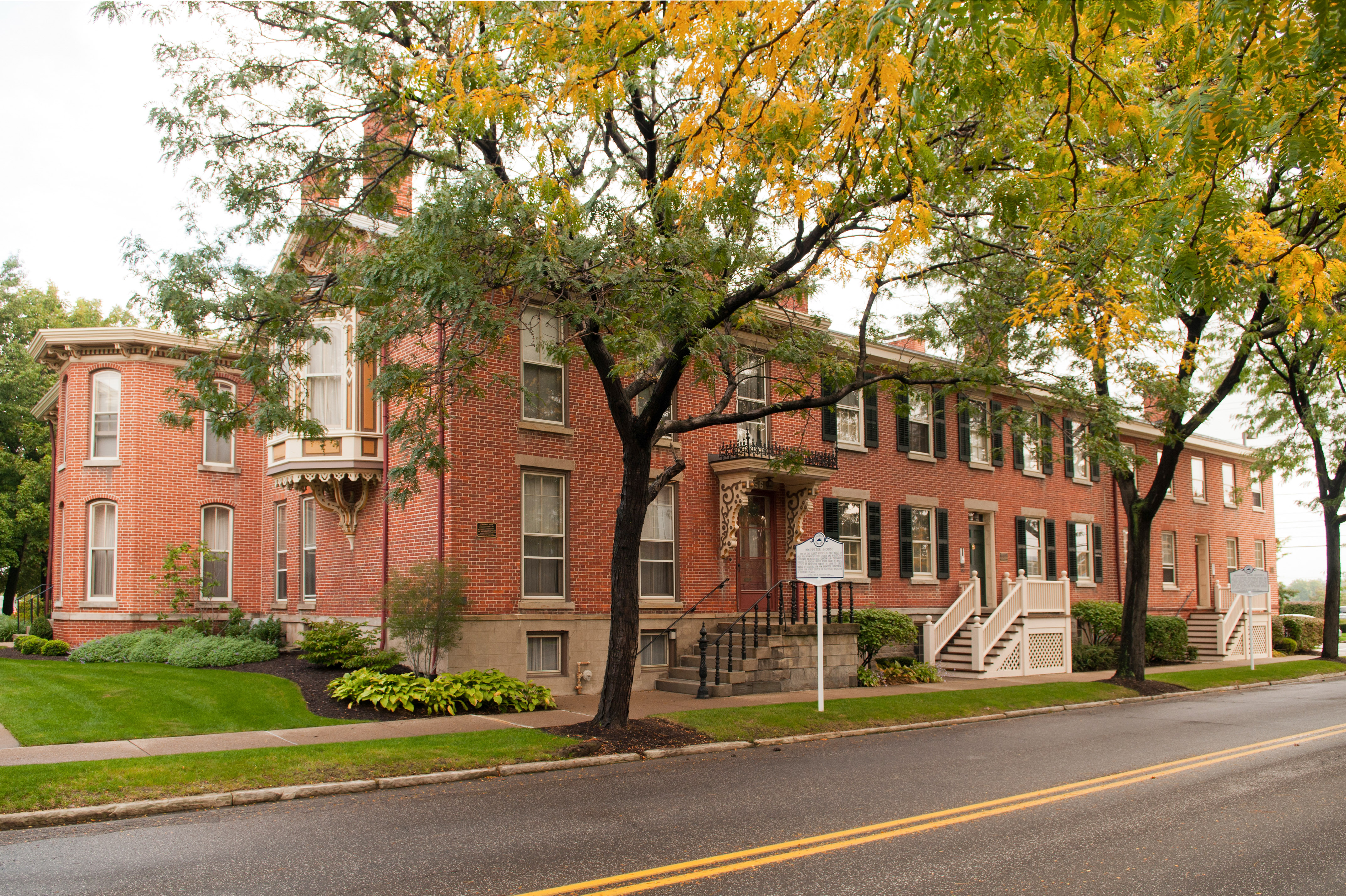 Federal Row